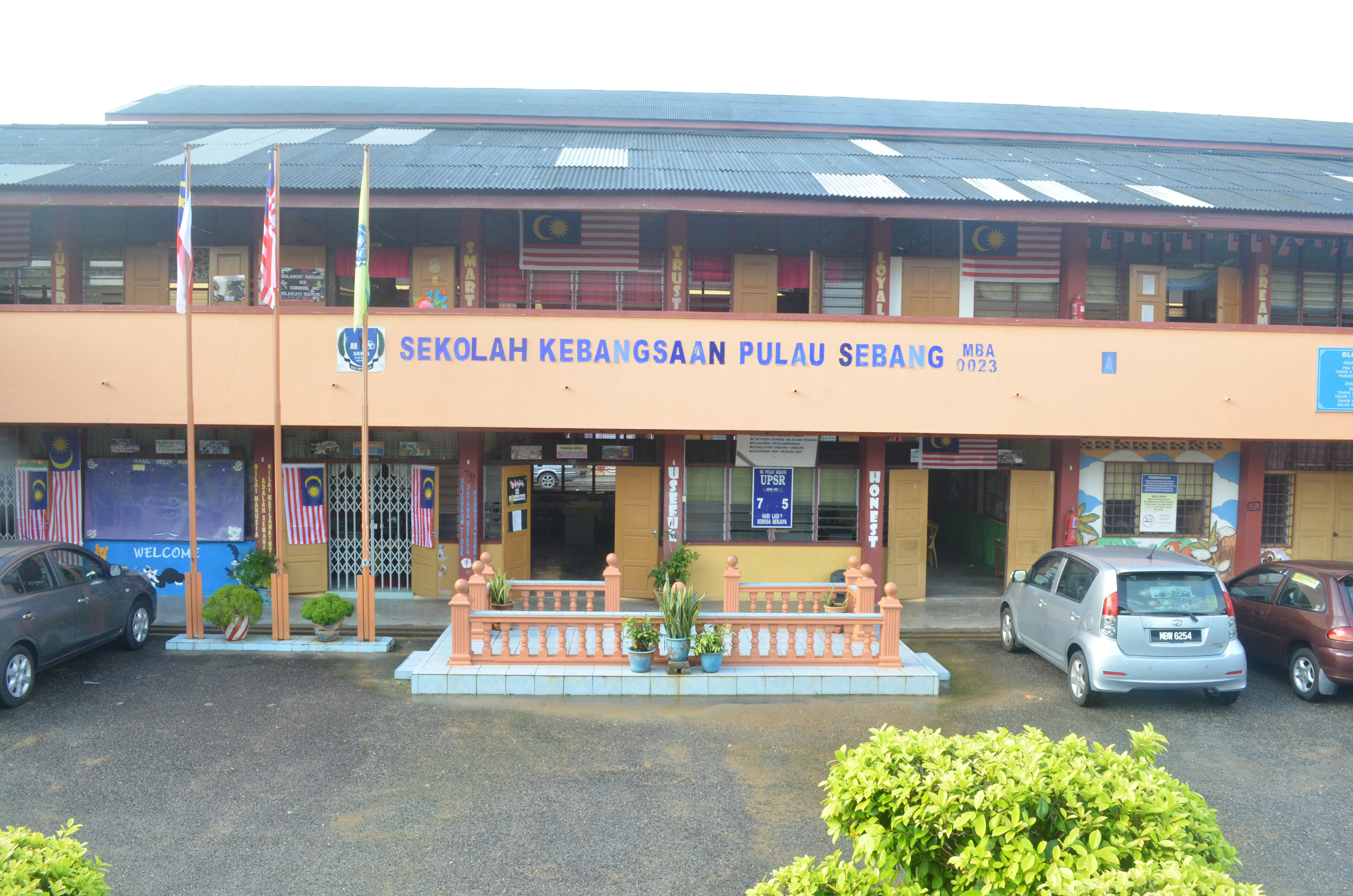 Wajah sekolah sekarang